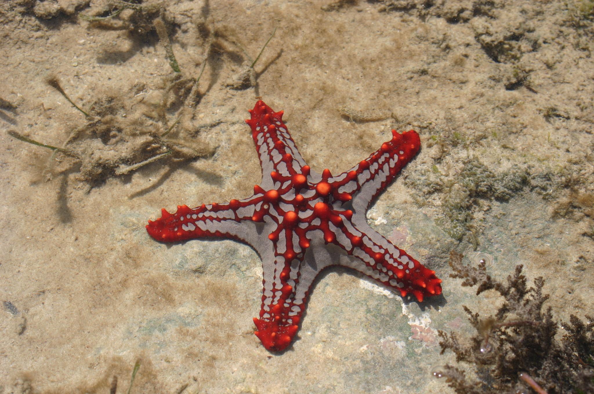 Red-knobbed Starfish Protoreaster linckii The image was taken in Indian Ocean in Kenya Photographed by Brocken Inaglory